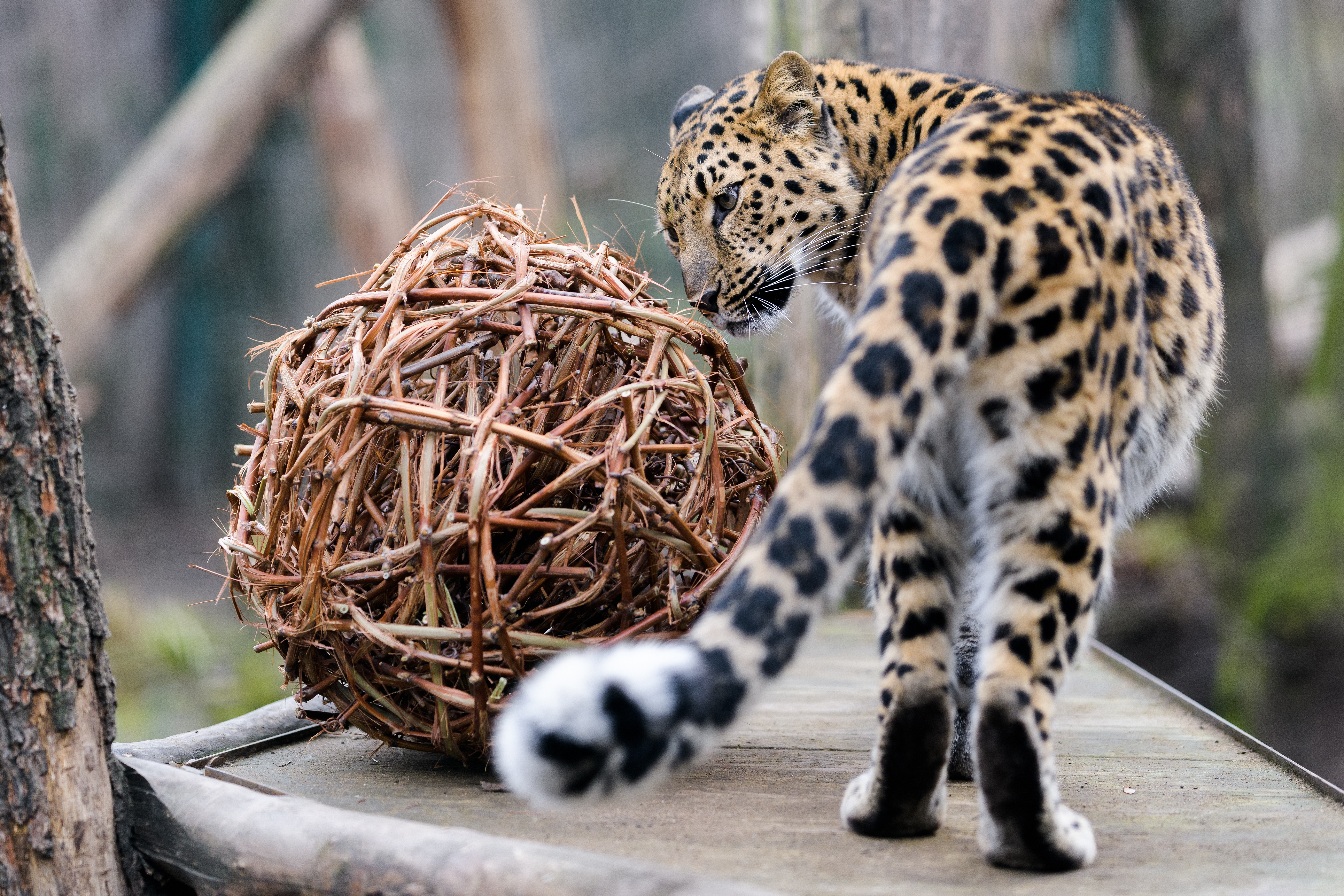 Amur leopard in Prague Zoo, female, Khanka, enrichment